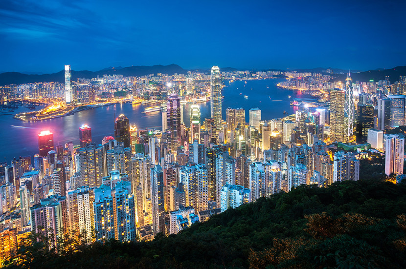 Hong Kong night view from Victoria Peak